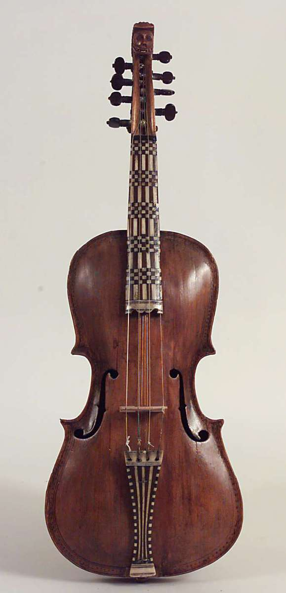 Hardanger fiddle from ca. 1750 made by Isak Nilssen Botnen (1669-1759)